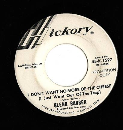 I Don't Want No More of the Cheese by Glenn Barber, Hickory 1969.